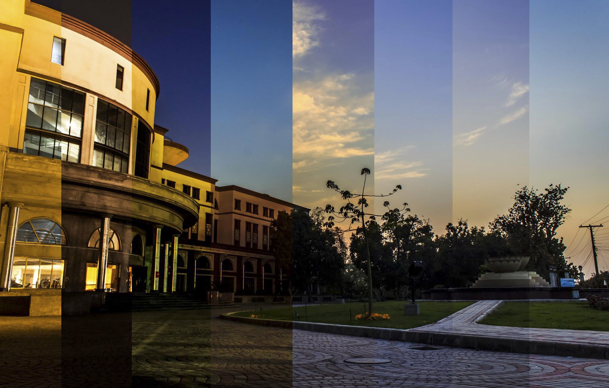 Services Institute of Medical Sciences, Lahore photograph by Saad Muzaffar. A timeslice photograph of Services Institute of Medical Sciences Lahore between the time period of 6:00 PM to 7:30 PM